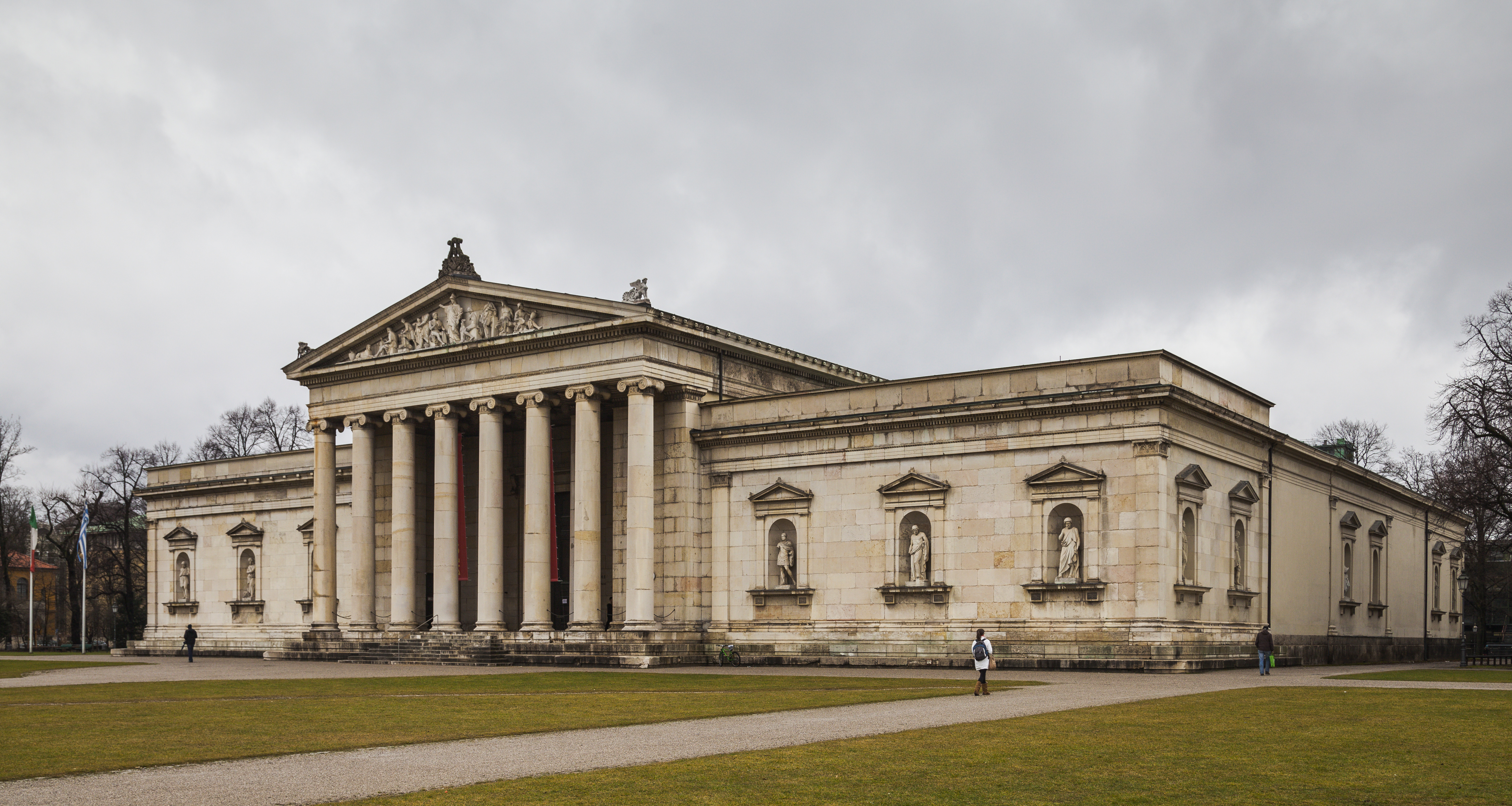 Glyptothek, Munich, Germany